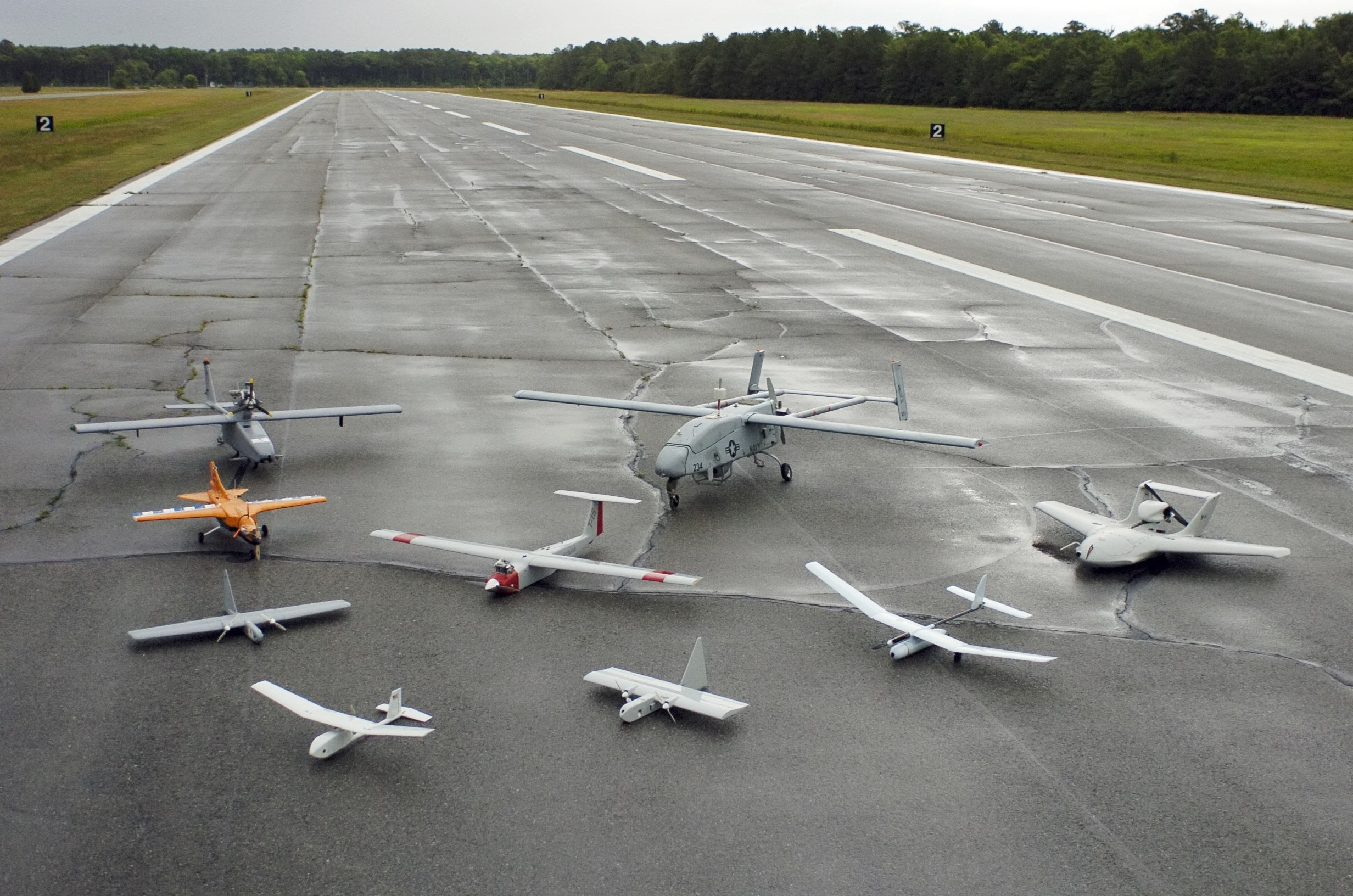 St. Inigoes, Md. (June 27, 2005) – A group photo of aerial demonstrators at the 2005 Naval Unmanned Aerial Vehicle Air Demo held at the Webster Field Annex of Naval Air Station Patuxent River. Pictured are (front to back, left to right) RQ-11A Raven, Evolution, Dragon Eye, NASA FLIC, Arcturus T-15, Skylark, Tern, RQ-2B Pioneer and Neptune. The daylong UAV demonstration highlights unmanned technology and capabilities from the military and industry and offers a unique opportunity to display and demonstrate full-scale systems and hardware. This year’s theme was, “Focusing Unmanned Technology on the Global War on Terror.”